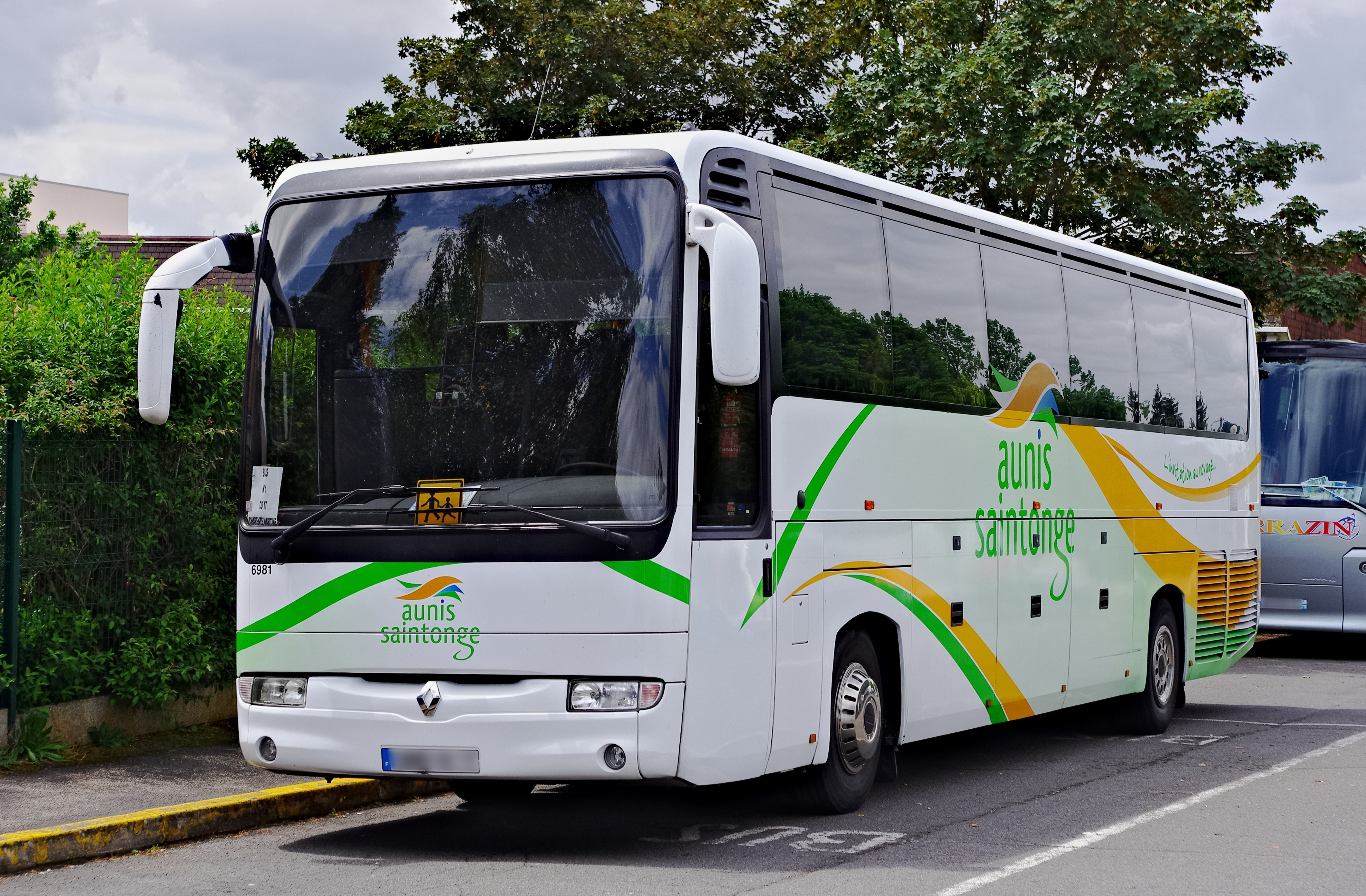 Coach Renault FR1 Iliade, Chasseneuil, Charente, France.